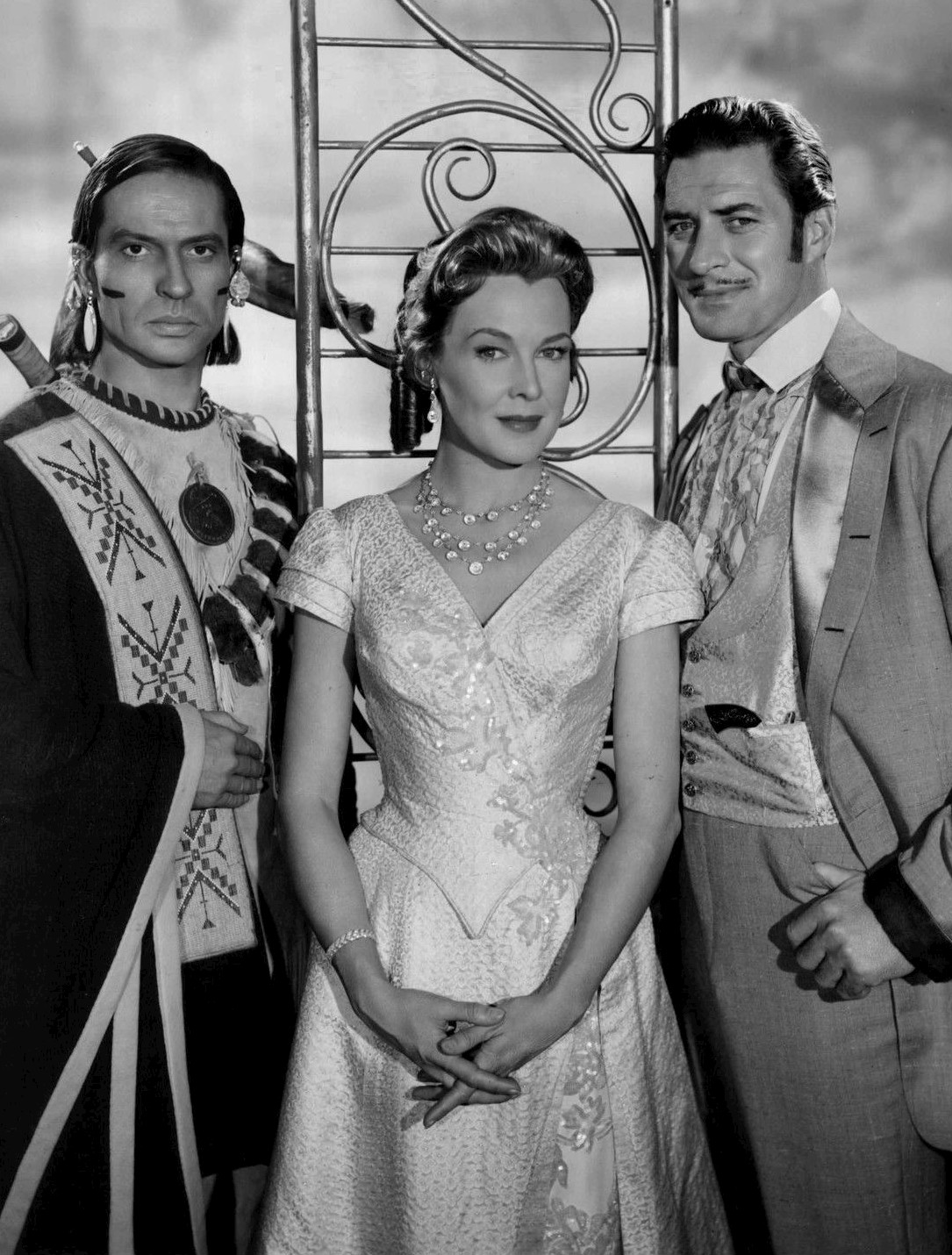 Photo of the main cast of the television program Yancy Derringer. From left- X. Brands (Pahoo-Ka-Ta-Wah), Frances Bergen (wife of Edgar-Madame Francine), Jock Mahoney (Yancy Derringer).